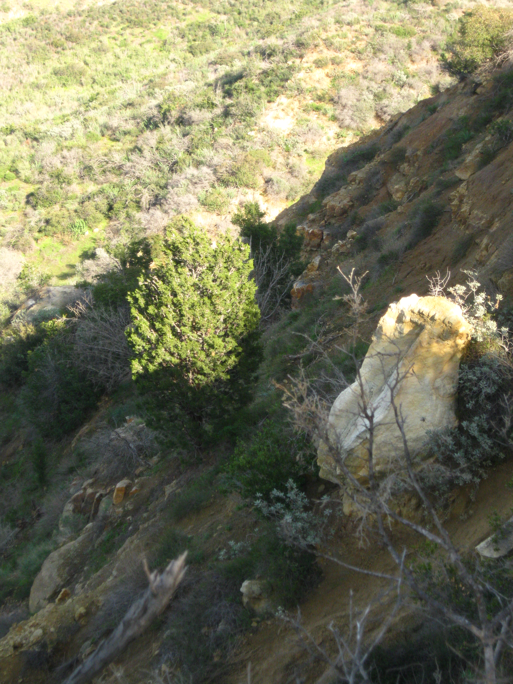 Surviving Mature tree at Coal Canyon